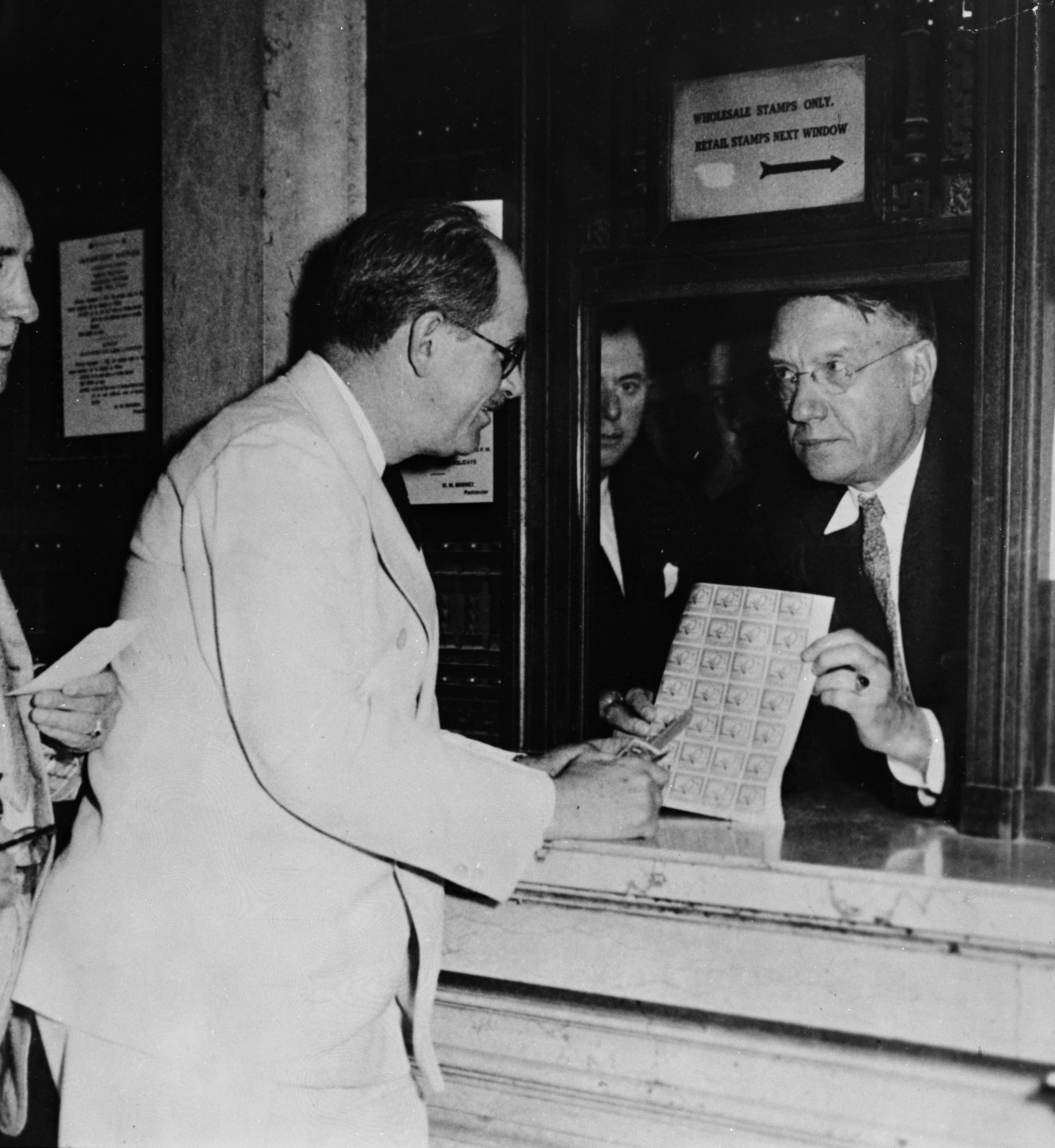 Jay Norwood “Ding” Darling (1876 - 1962) became the “Father of the Federal ‘Duck Stamp’” on March 16, 1934, when Congress passed and President Franklin Roosevelt signed the Migratory Bird Hunting Stamp Act. The law set up a permanent source of money to buy and preserve land for waterfowl, using the idea of an annual Federal revenue stamp conceived by Darling that would be bought by all hunters of ducks, geese, and swans. Darling, a political cartoonist for the Des Moines Register, was known for his biting satires depicting the destruction of the nation’s waterfowl habitat in the midst of the havoc wrought by the “dust bowl” of the Great Depression. Conservationist and stamp collector Roosevelt was captivated by Darling’s talents – if not by his political views. He appointed Darling chief of the Bureau of Biological Survey, predecessor to the U.S. Fish and Wildlife Service, where he served from 1934-35, working closely with conservation luminaries like Ira Gabrielson of the Biological Survey and Aldo Leopold of the U.S. Forest Service to reenergize the nation’s conservation efforts during the New Deal. Darling’s “Duck Stamp” since has raised more than $600 million for land acquisition and helped put the National Wildlife Refuge System on sounder financial footing during the latter half of the 20th Century.